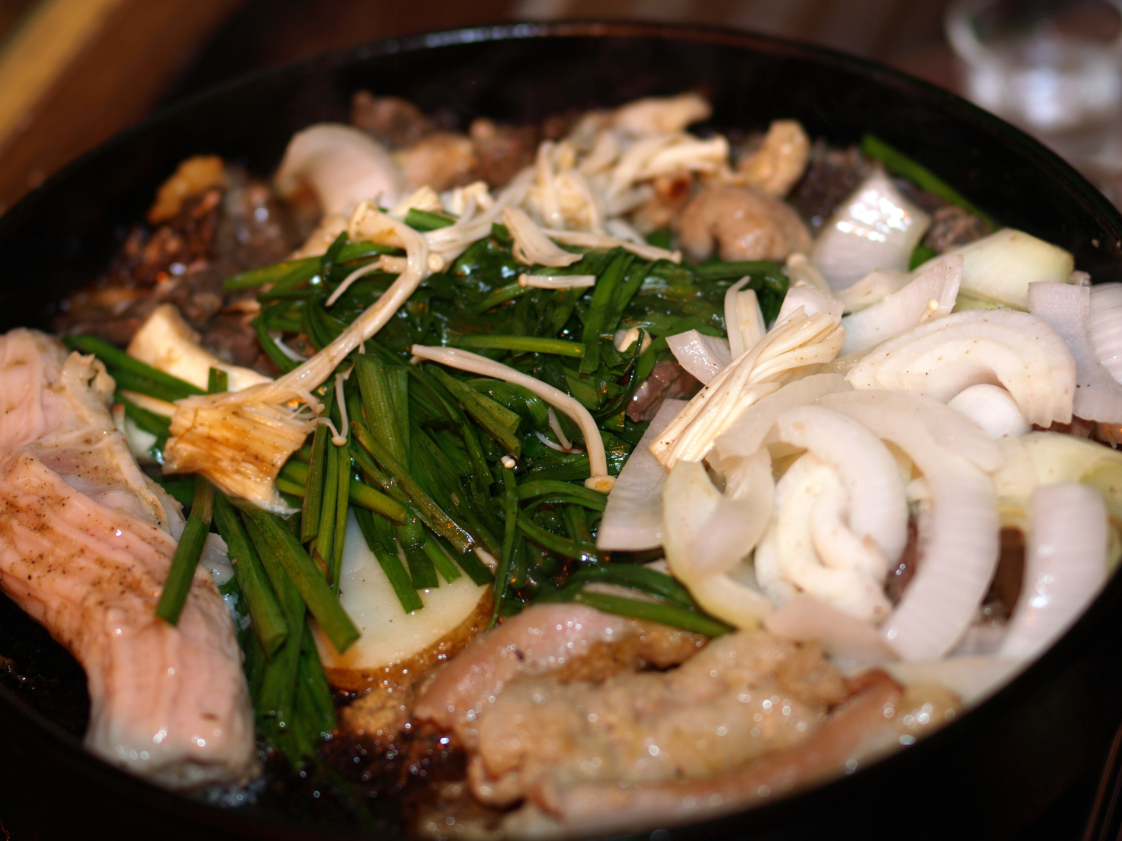 Gobchang jeongol (곱창전골), made with gobchang (cow intestine) and vegetables